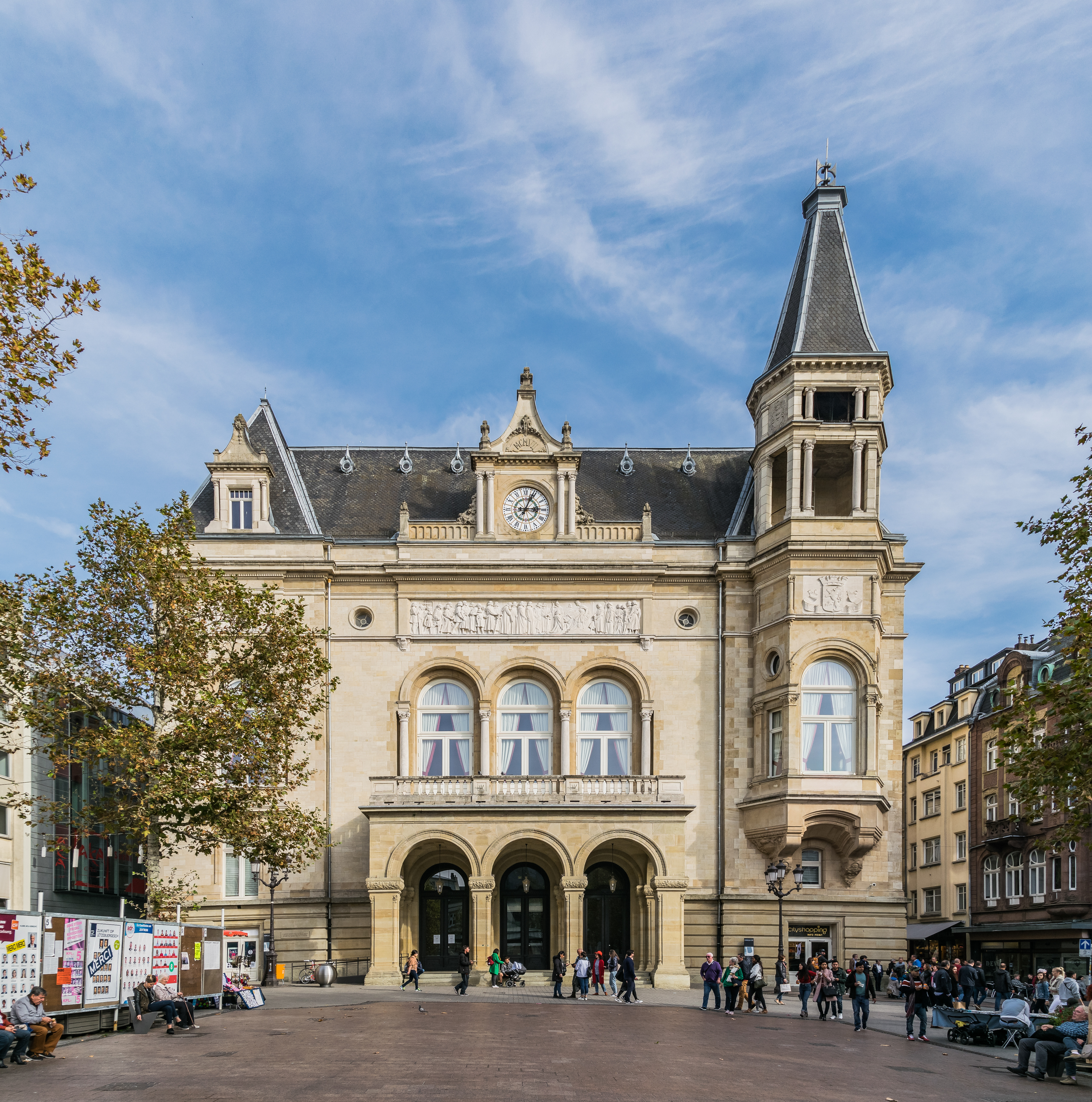 Cercle municipal in Luxembourg City, Luxembourg NOTE: This image is a panorama consisting of 2 frames that were merged or stitched in Adobe Lightroom. As a result, this image necessarily underwent some form of digital manipulation. These manipulations may include blending, blurring, cloning, and colour and perspective adjustments. As a result of these adjustments, the image content may be slightly different from reality at the points where multiple images were combined. This manipulation is often required due to lens, perspective, and parallax distortions.